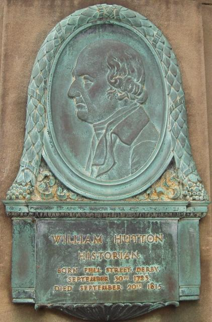 Exter Bridge Hutton